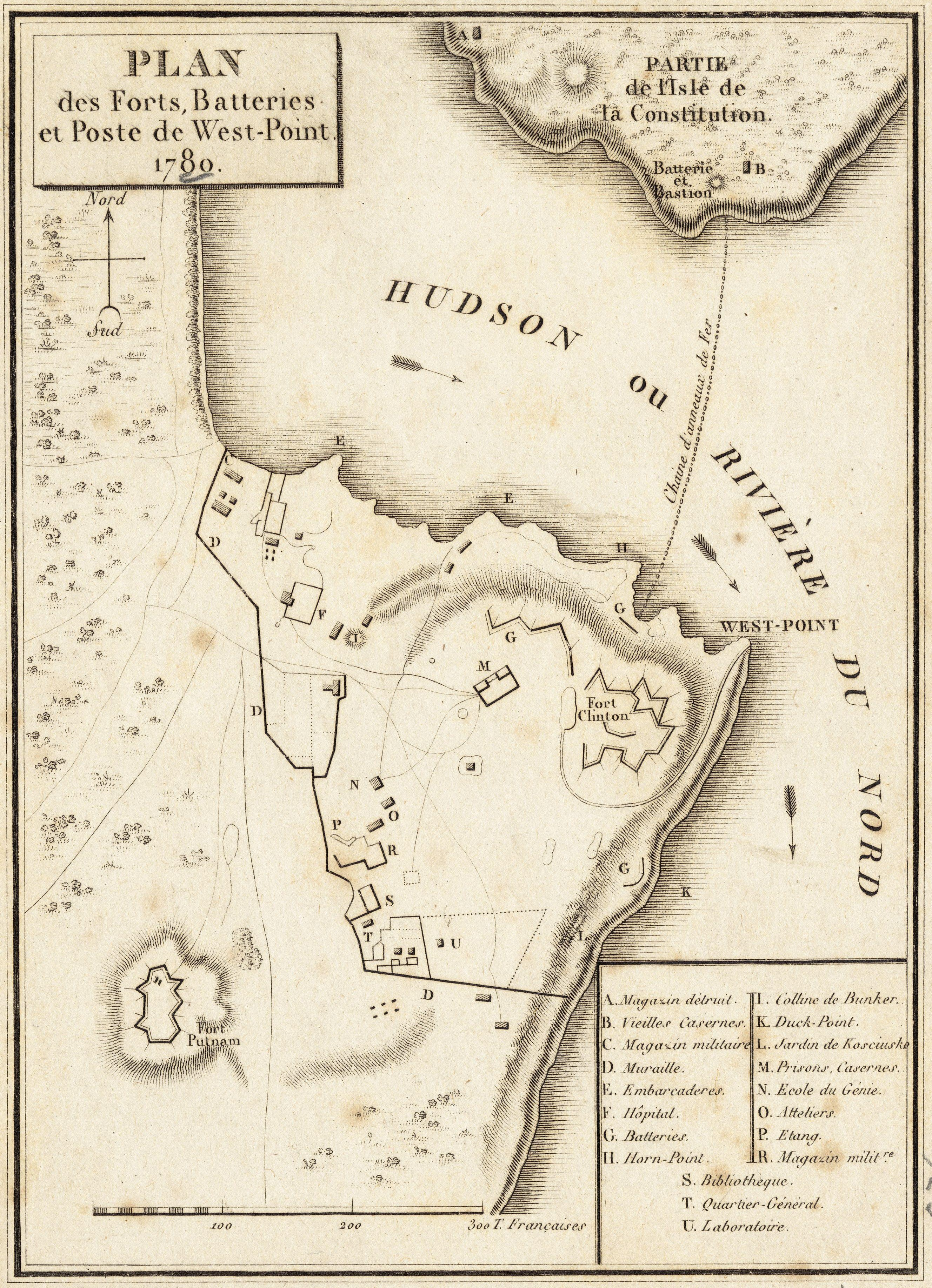 Map depicting the fortifications of West Point in 1780, at the time Benedict Arnold attempted to surrender it to the British.